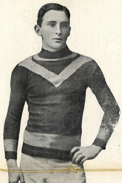 Player poster of Alick Ogilvie in the 1910 Victorian Football Follower series